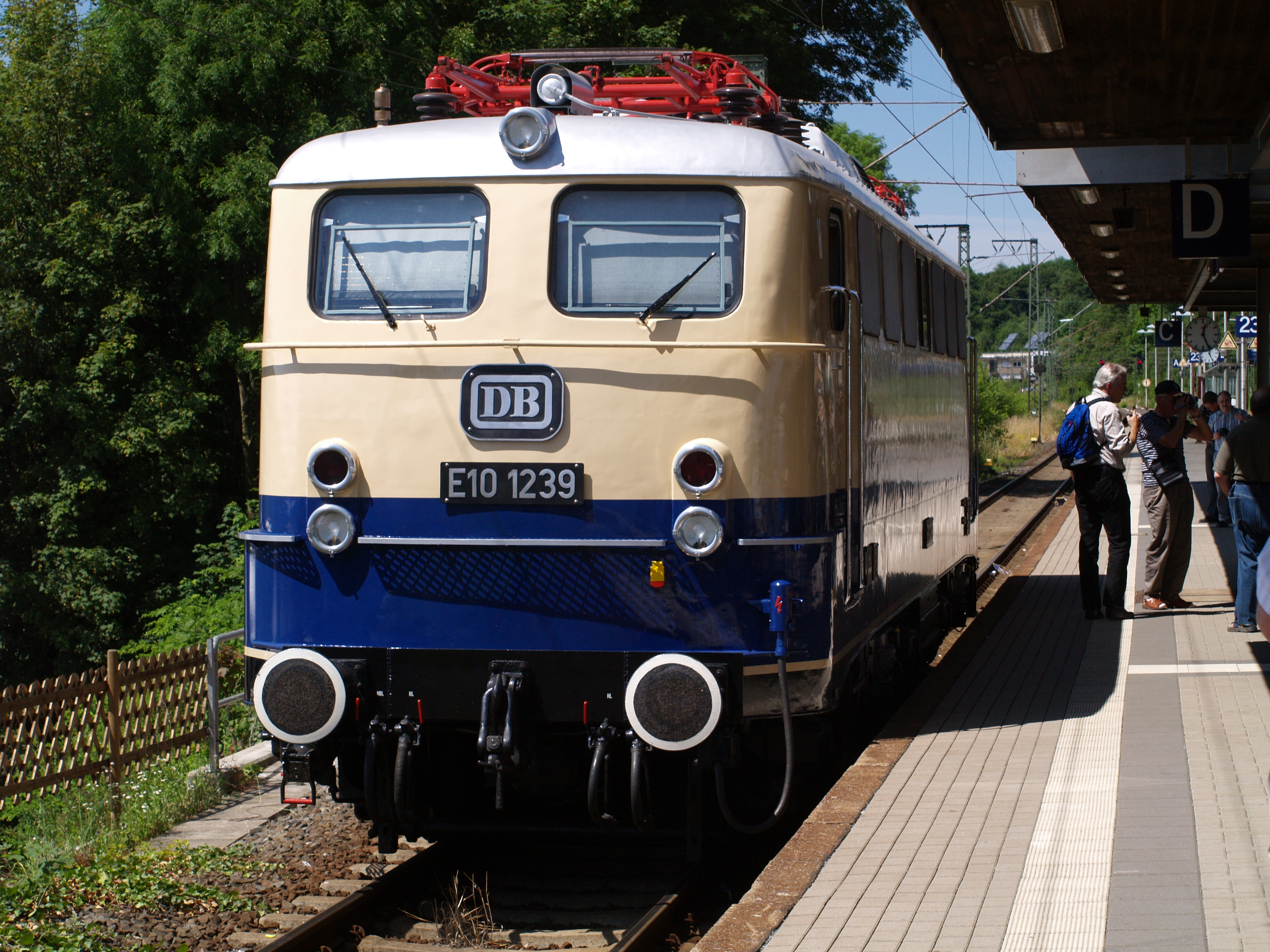 German Rail electric locomotive E 10 1239 (in cobalt blue/ivory F Rheingold livery with silver roof as of 1962), built in 1962, in Altenbeken station during the Viaduct Days in July 2009